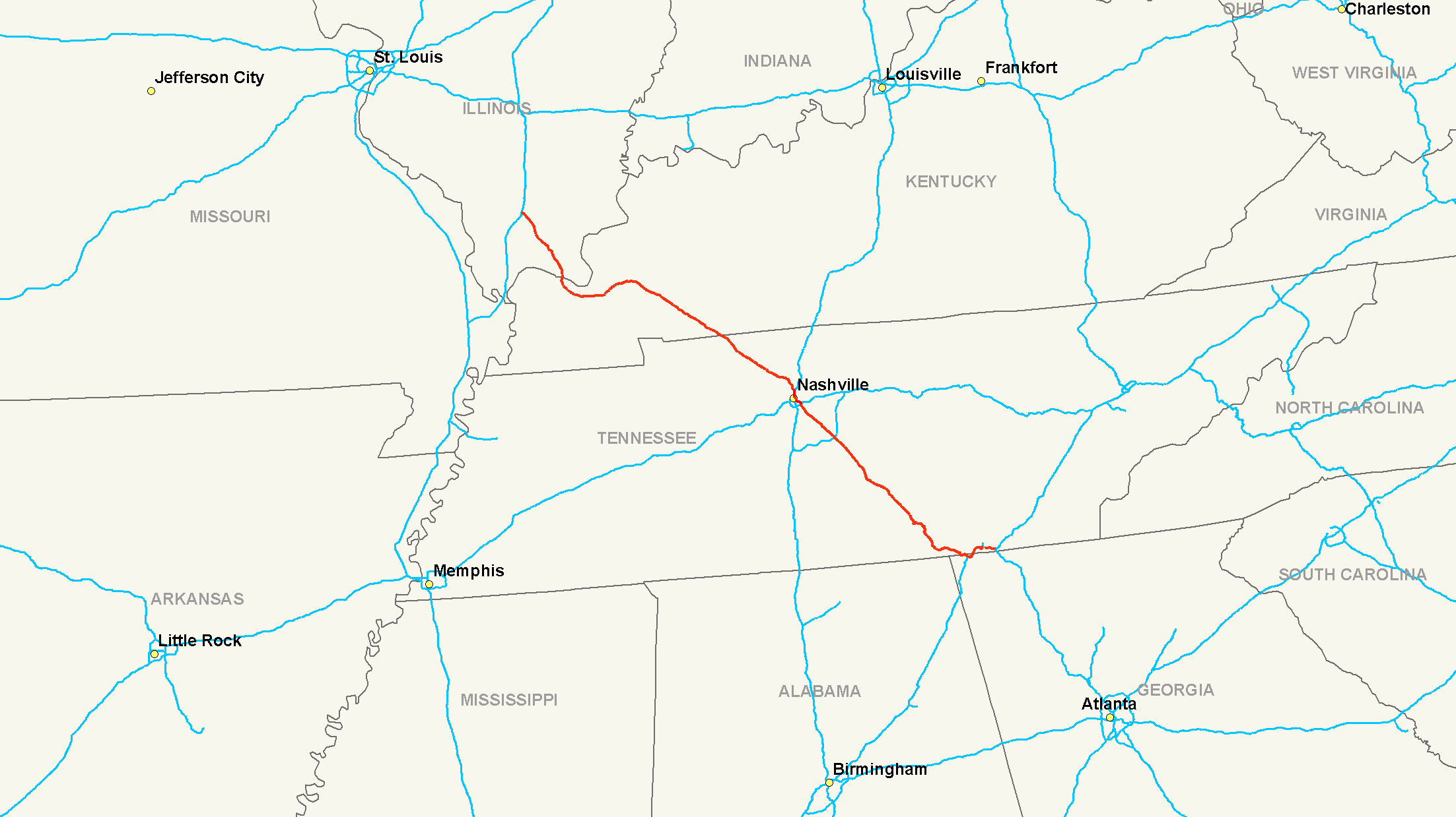 Map of Interstate 24